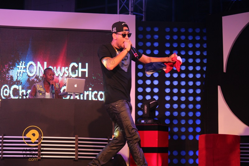 AKA performing in Ghana